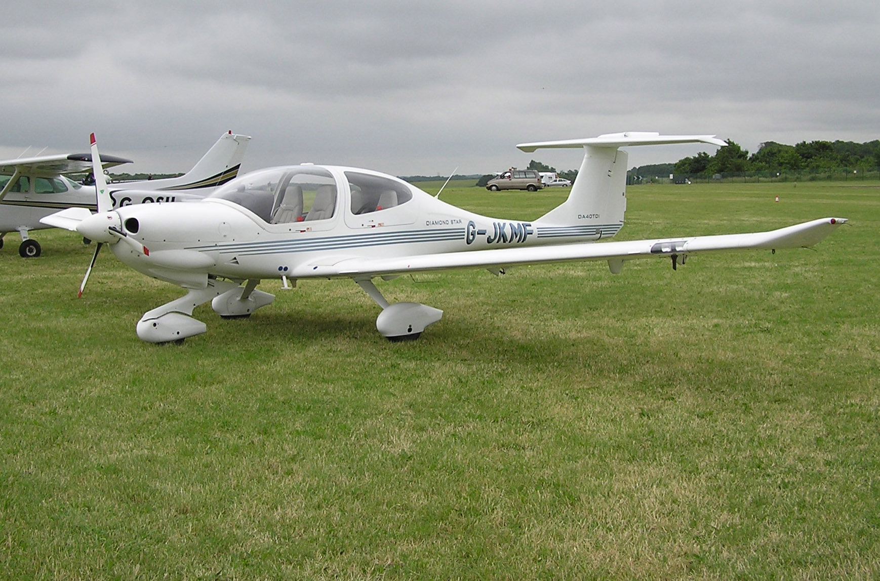 Diamond DA40-TDI Diamond Star (UK registration G-JKMF) at Kemble Airfield, Gloucestershire, England. Date of manufacture 2003.